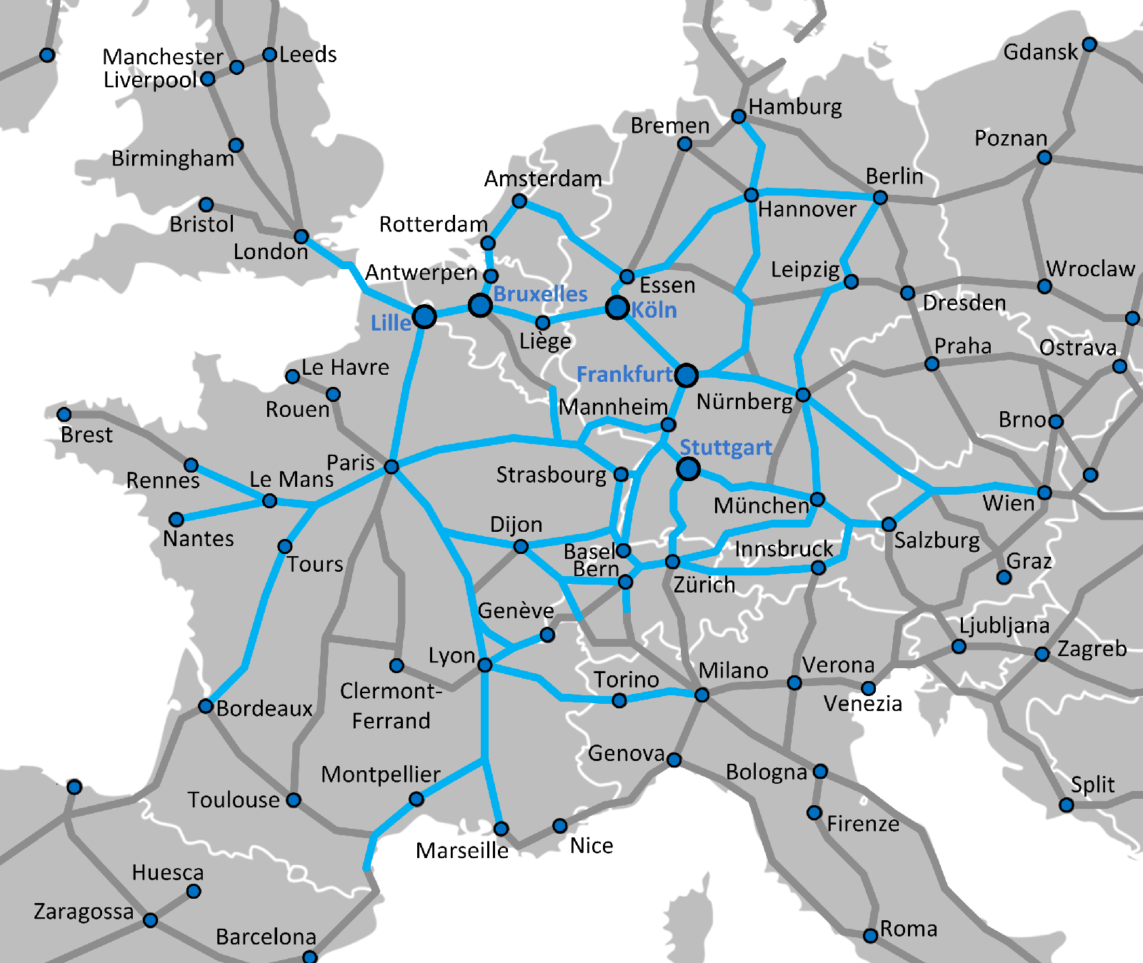 Railteam Network June 2008